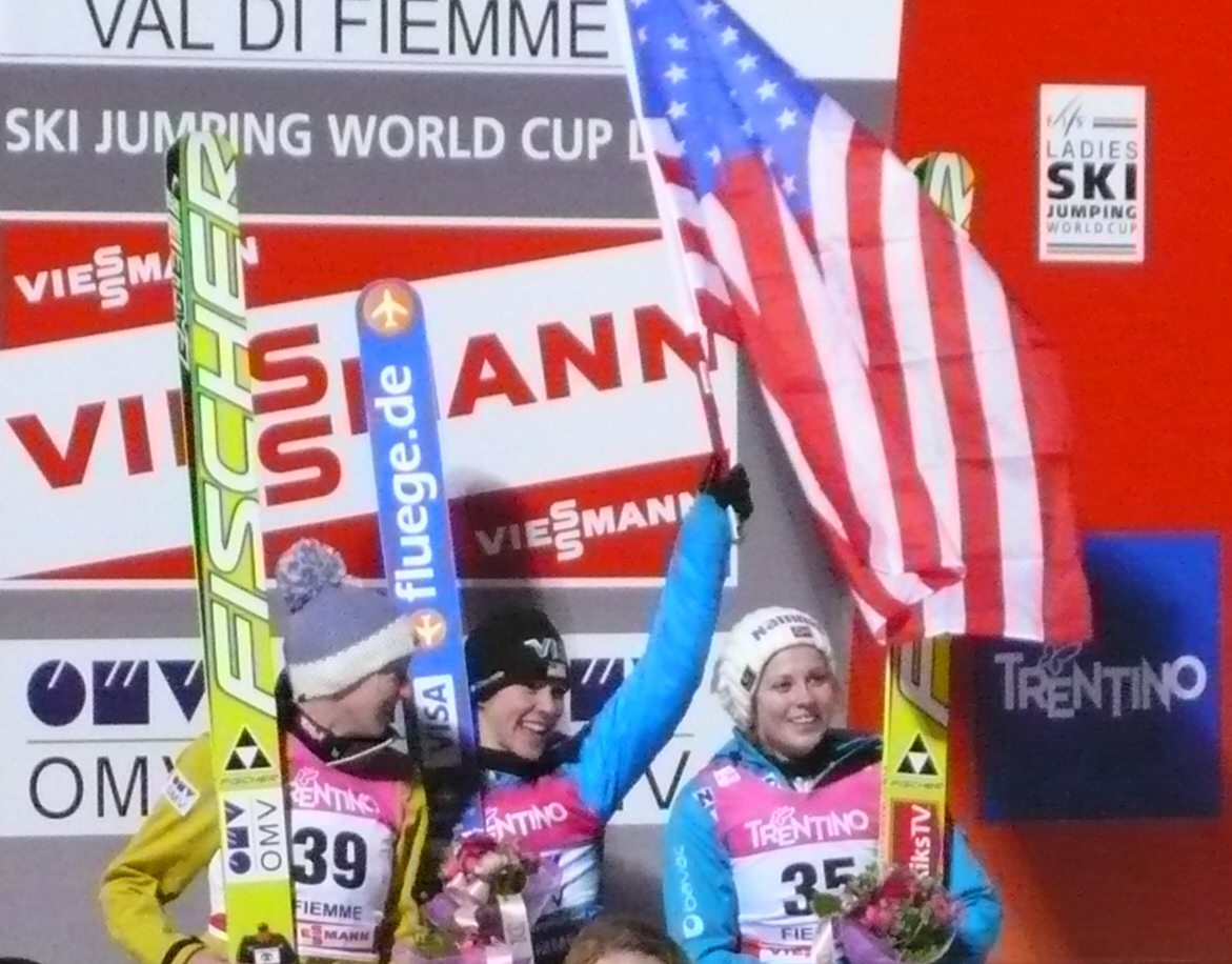 1: Sarah Hendrickson, 2: Daniela Iraschko, 3: Anette Sagen: podium of Female Skijumping Worldcup in Predazzo on the 2012-01-14.